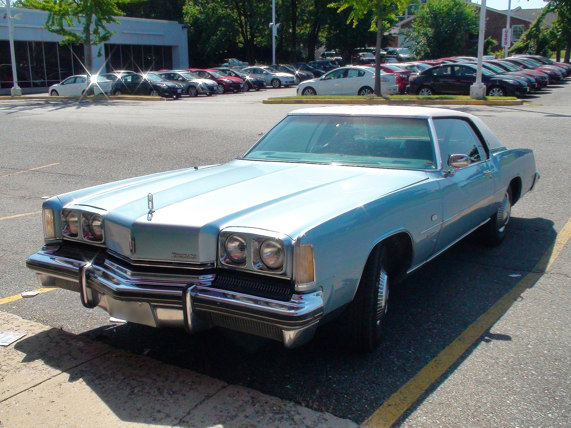 A wedgewood blue 1973 Oldsmobile Toronado Custom photographed in June 2009, outside an Hour Eyes eyeglasses store on North Frederick Avenue in Gaithersburg, Montgomery County, Maryland. This particular automobile was manufactured at the Fisher Body Lansing Car Assembly plant in Lansing, Michigan, on October 28, 1972, as a 1973 model, and was sold to its first, original owner in Las Vegas, Nevada in November 1972. As evidenced by the photograph, this particular automobile has a vinyl roof and been re-painted in the original factory wedgewood blue color; the original paint job featured some decorative stickers on the hood and sides of the automobile. It also has small aftermarket cornering signal lights installed on both front fenders, to improve visibility to other drivers and motorists. Photograph taken on June 29, 2009, in Gaithersburg, Maryland, with a Sony HDR-SR11 camcorder, by Illegitimate Barrister.